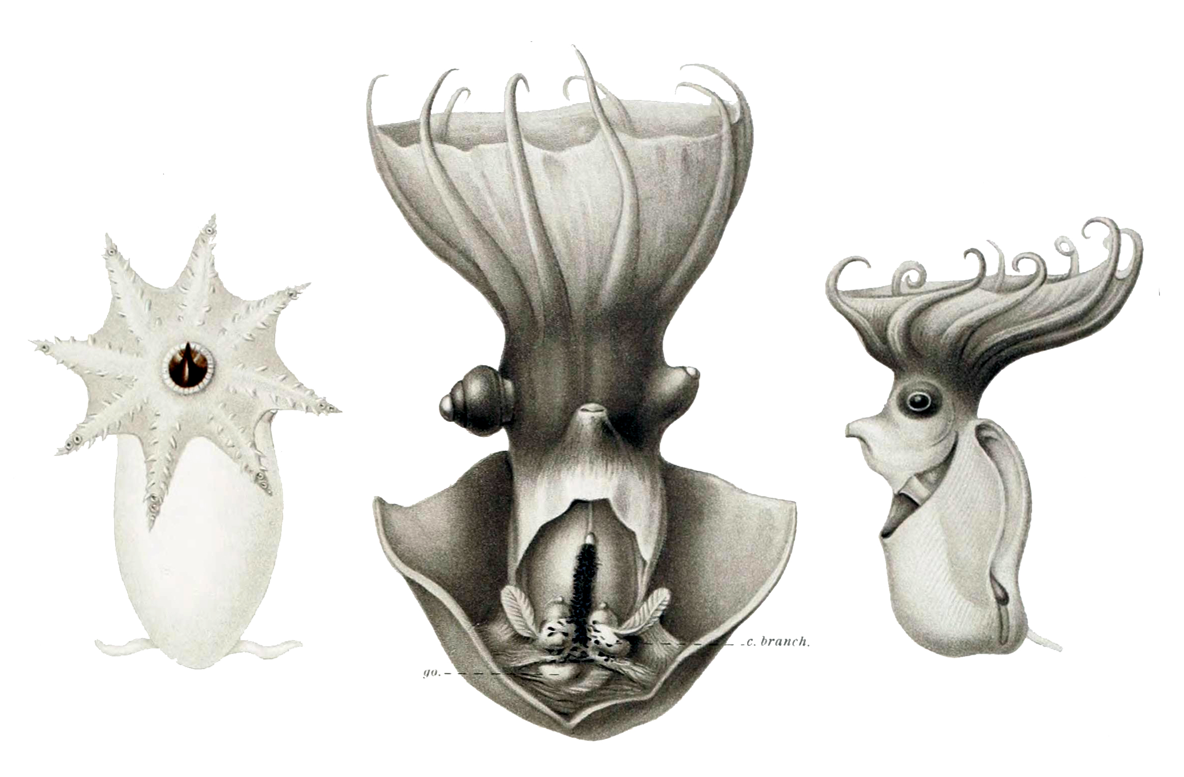 Vampyroteuthis infernalis